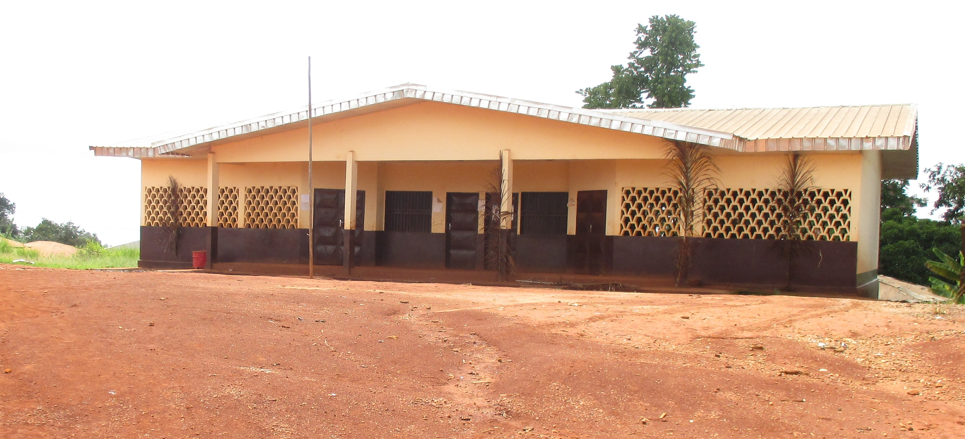 Ecole Maternelle de Bandrefam